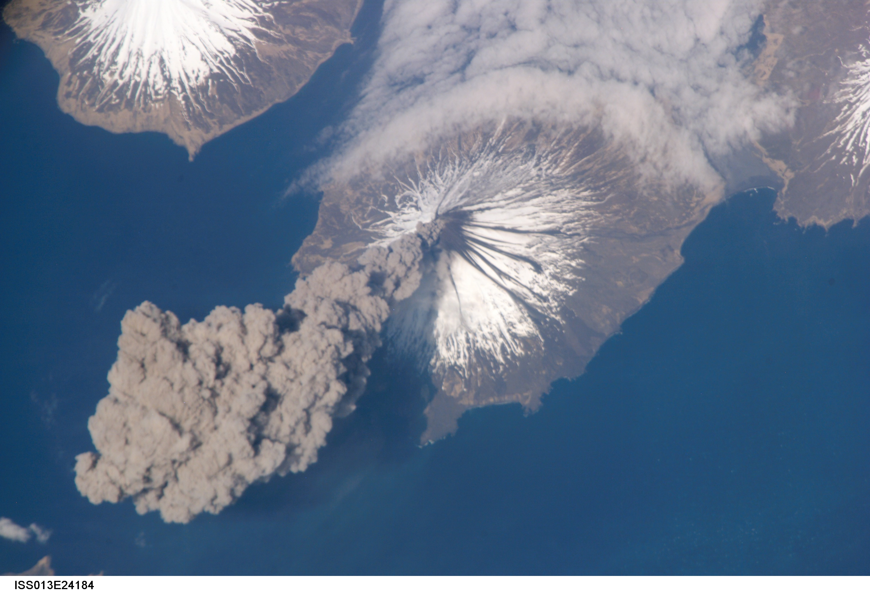 Astronaut photo of ash cloud from Mount Cleveland, Alaska, USA.